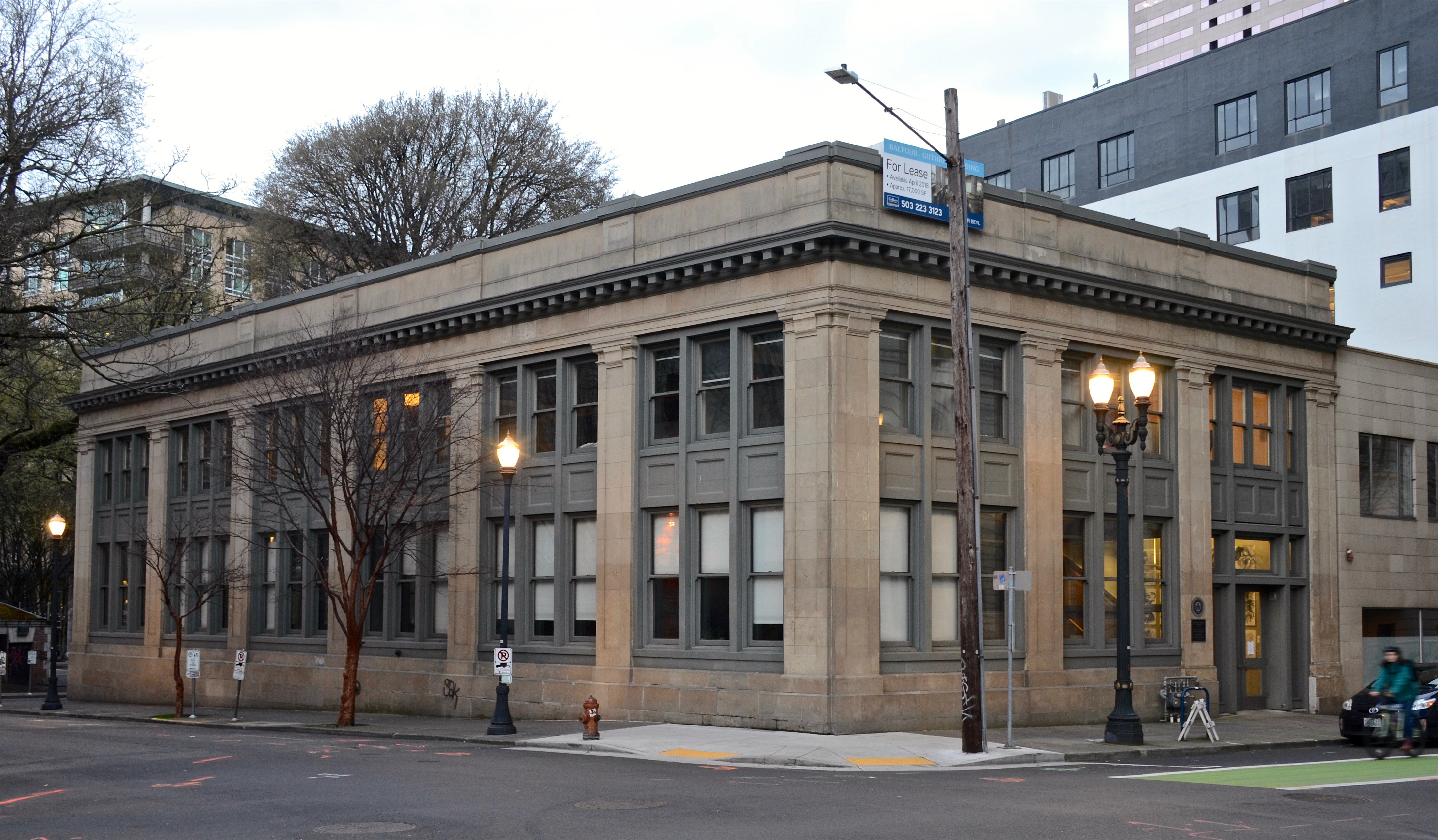 The Balfour–Guthrie Building, in downtown Portland, Oregon, was built in 1913 and is listed on the U.S. National Register of Historic Places. This view is from the southwest.